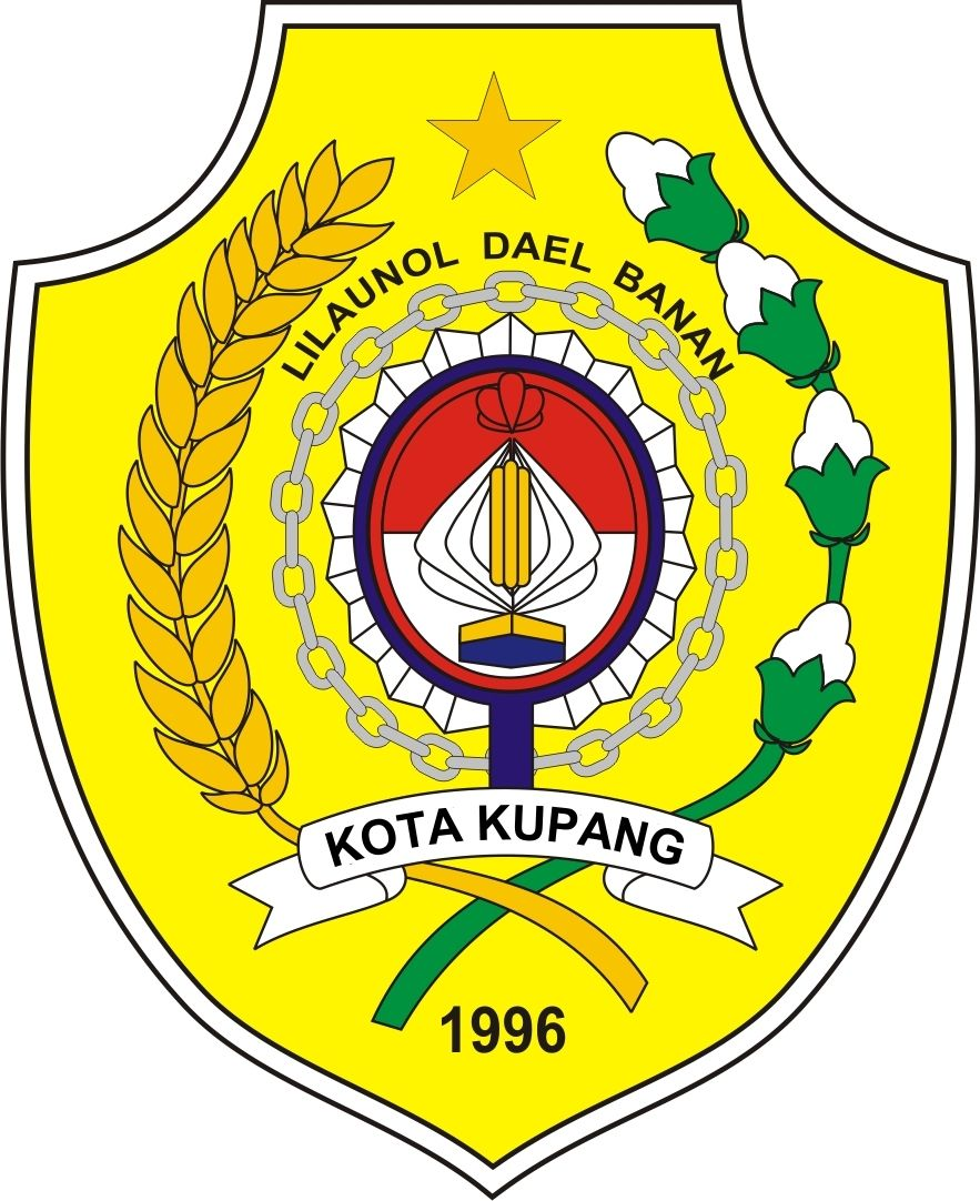 Seal for the city of Kupang, East Nusa Tenggara, Indonesia. retreived from